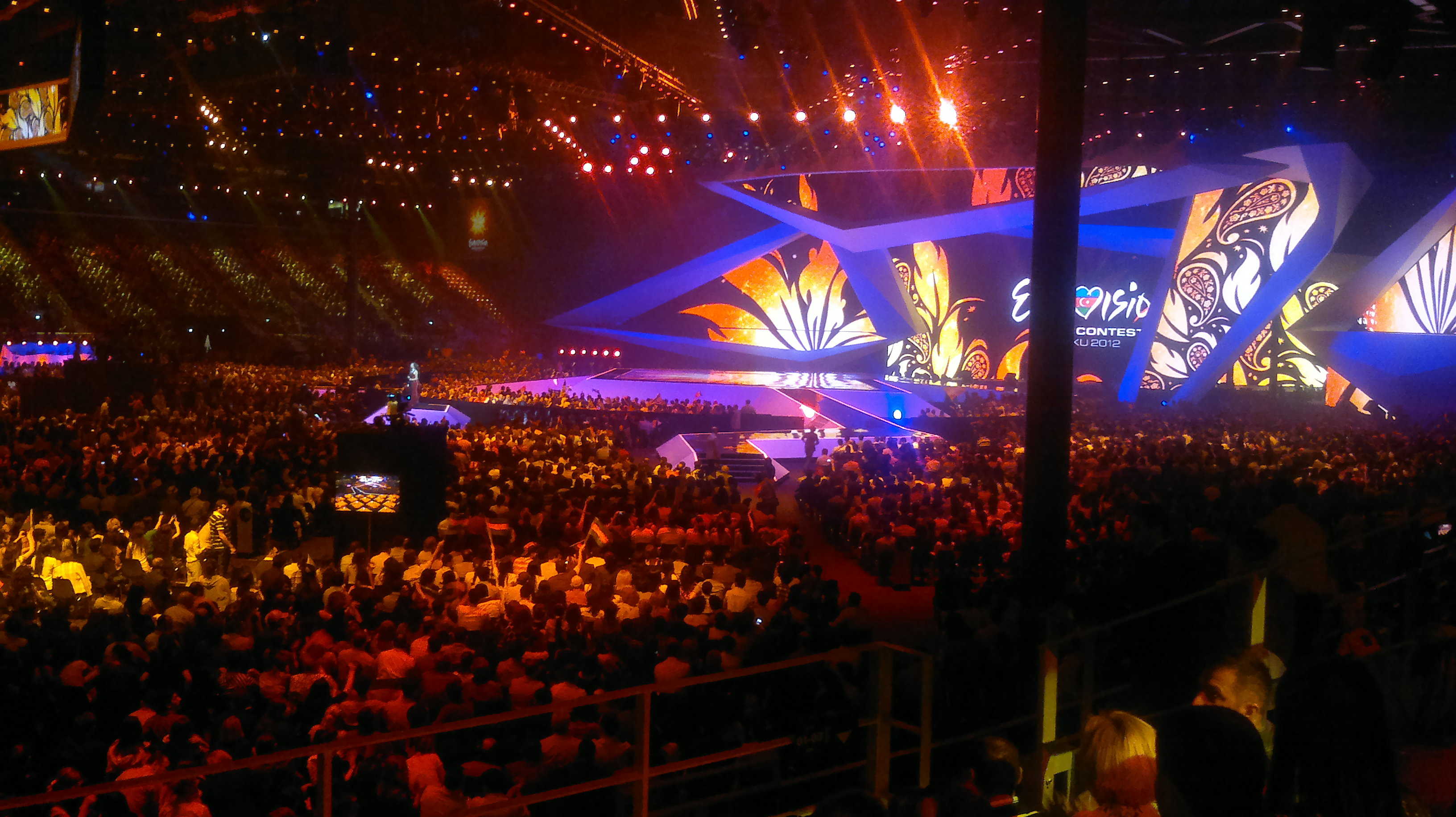 First semi-final of Eurovision 2012. Baku, Azerbaijan